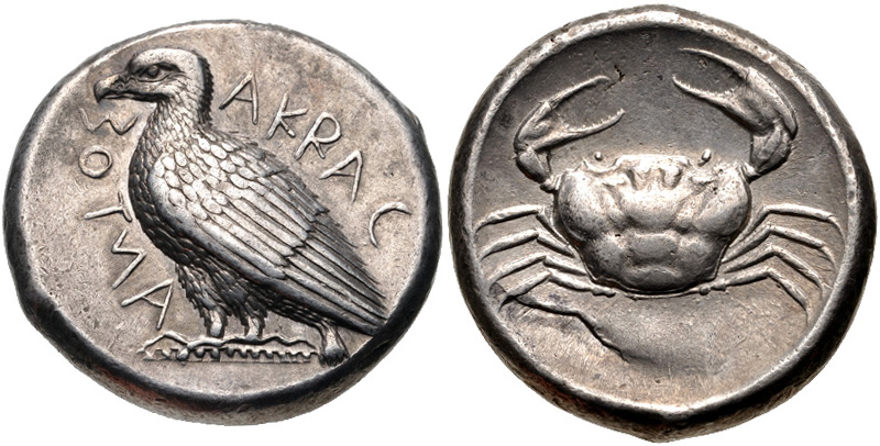 SICILY, Akragas. Circa 465/4-446 BC. AR Tetradrachm (24mm, 17.53 g, 4h). Sea eagle standing left; AKRAC ANTOΣ (partially retrograde) around / Crab within shallow incuse circle.